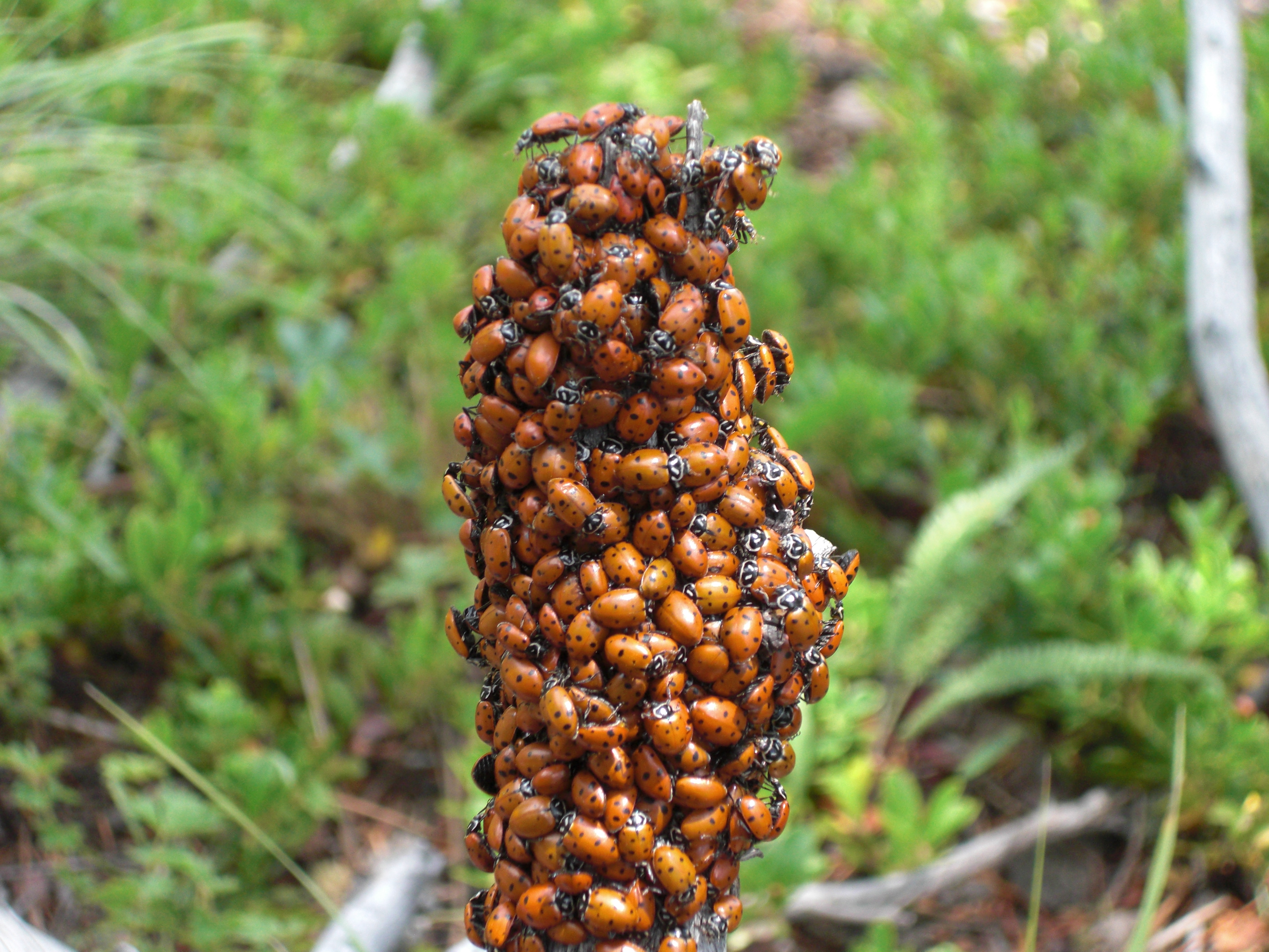 Picture taken at the top of Gray Back Peak outside of Colorado Springs, Co